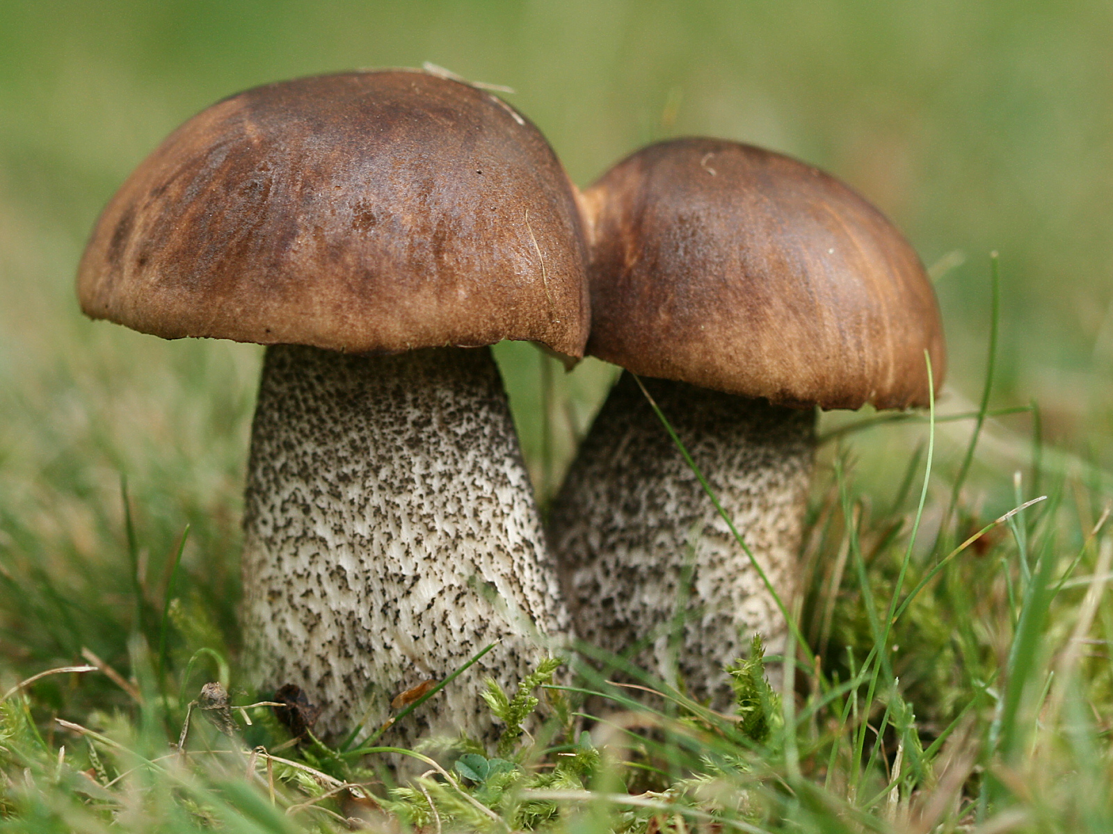 Birch bolete (Leccinum scabrum) under a birch, Hainaut, Belgium.